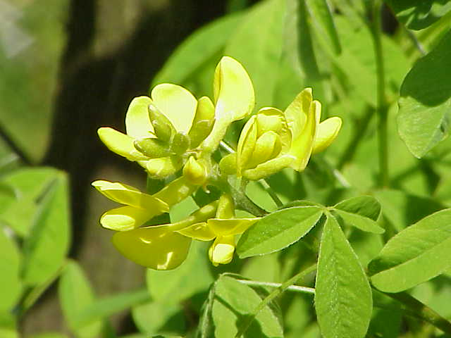 Species: Petteria ramentacea Family: Fabaceae Image No. 2